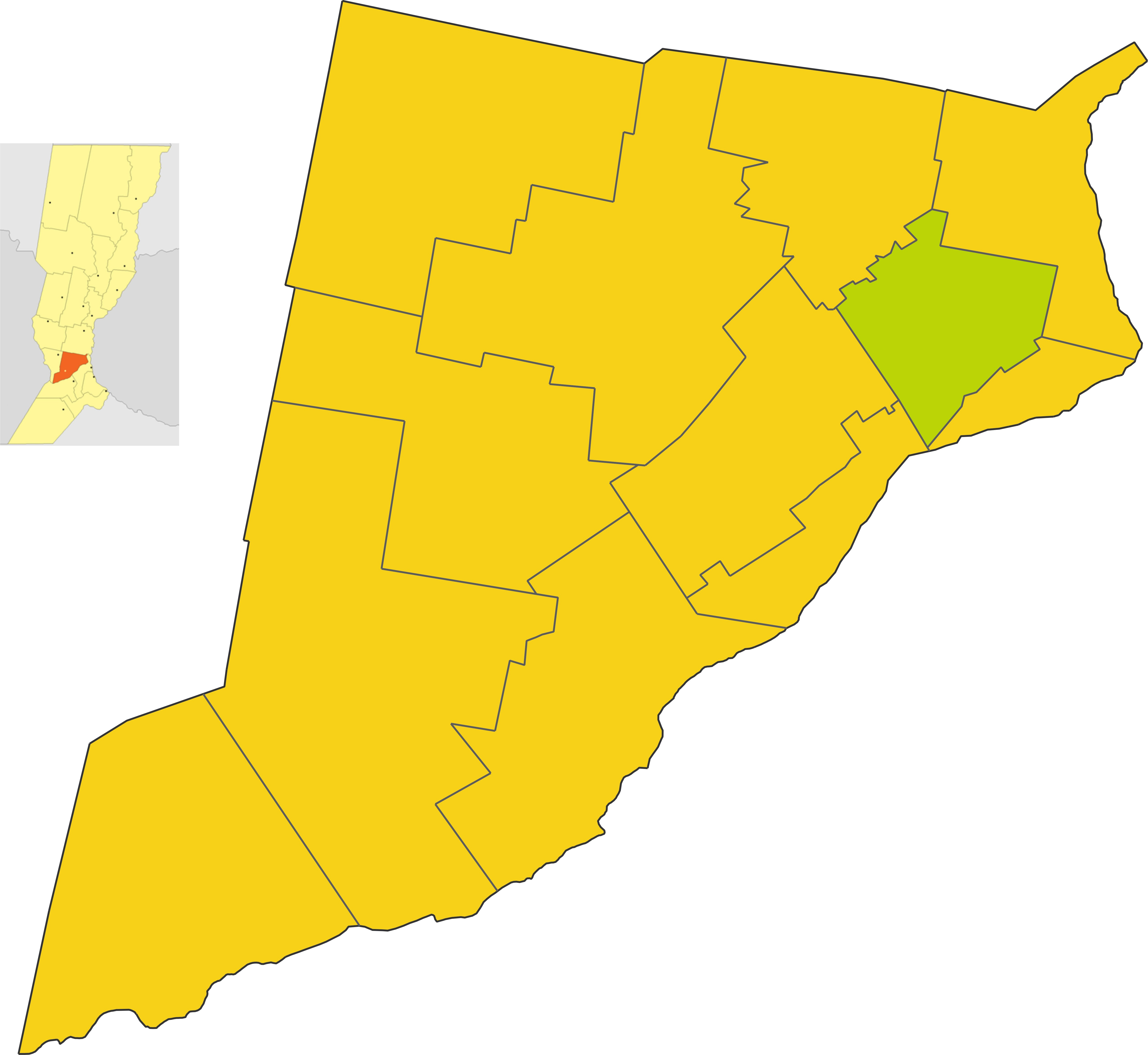 Map of the comuna de Serodino in Iriondo department, Santa Fe province, Argentina